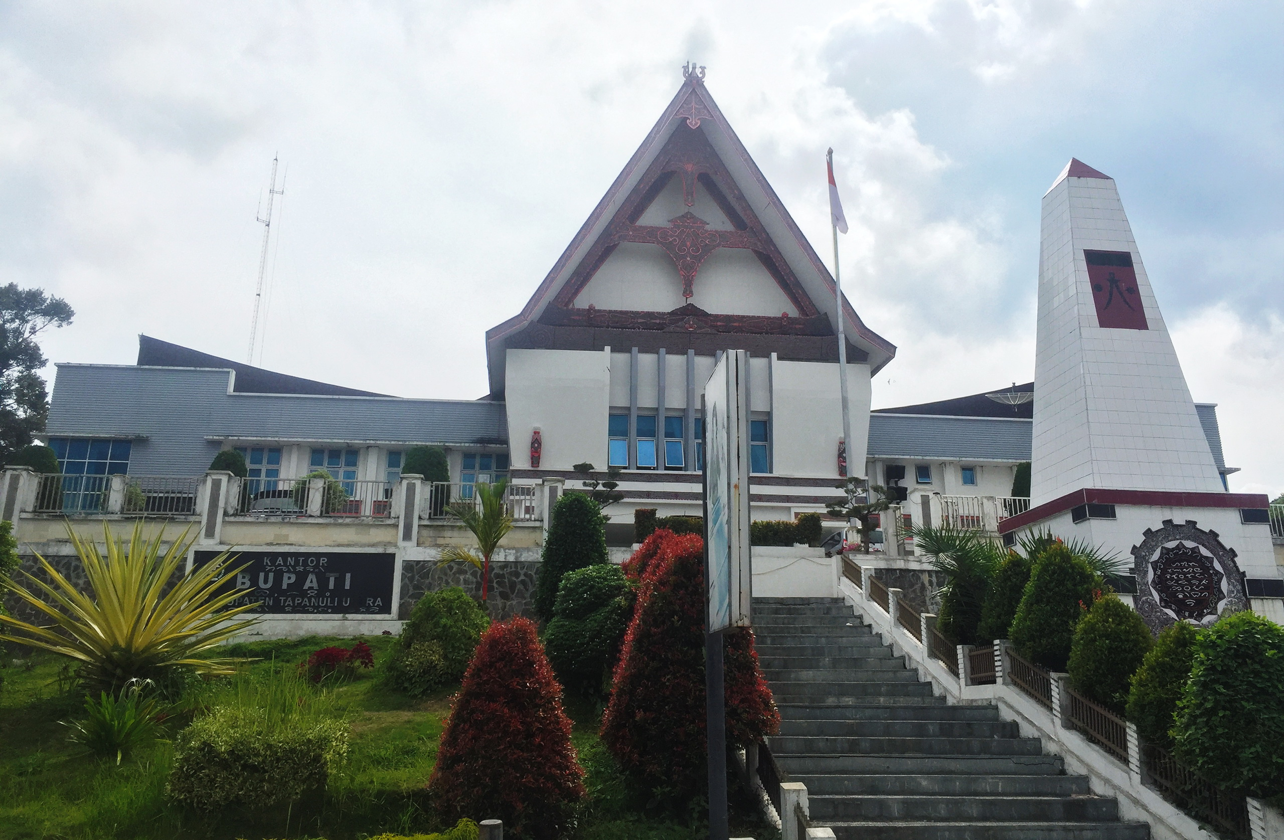 Office of Kabupaten Tapanuli Utara, Sumatra Utara